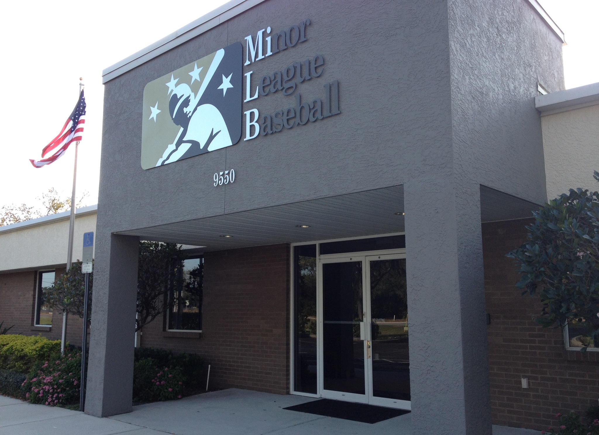 Image of the front of the Minor League Baseball Front Office